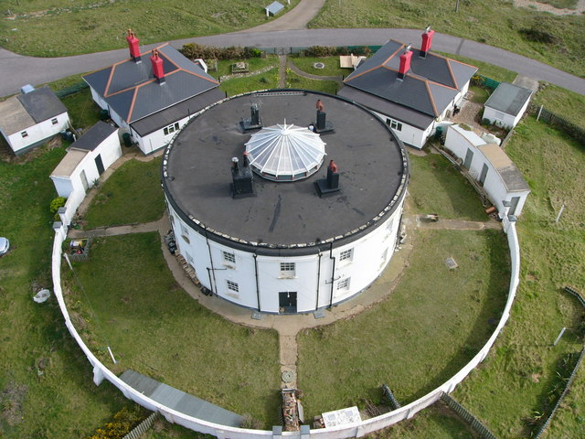 Dungeness, view from old lighthouse 'Round House' - the original base of the 18th Century lighthouse.